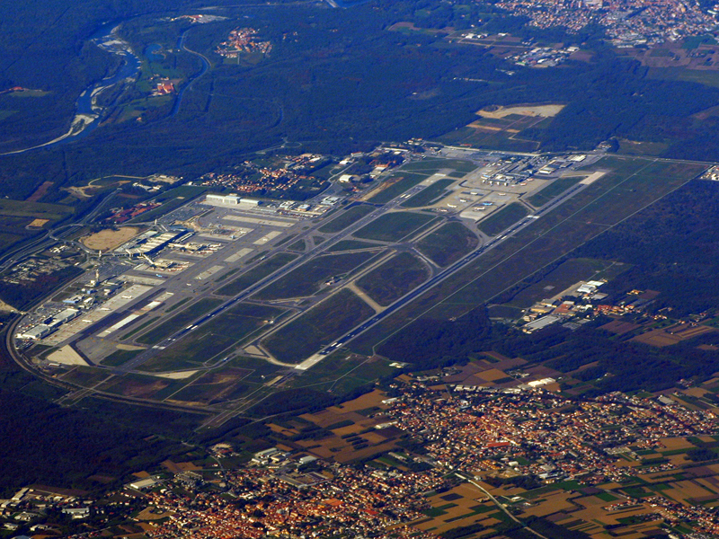 Aerial view of Malpensa Airport in Milan, Italy